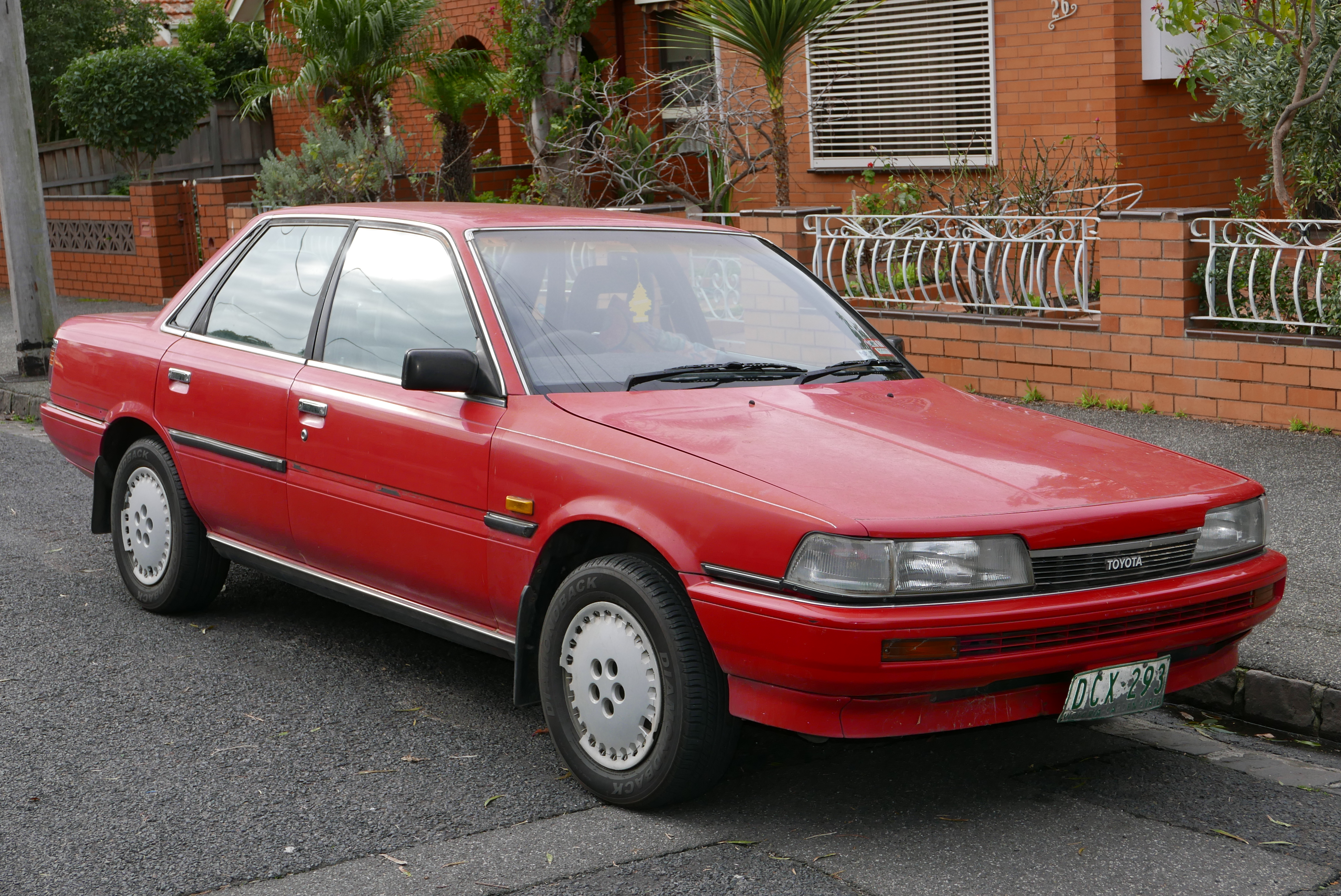 1987 Toyota Camry (SV21) CS-X sedan. Photographed in Brunswick, Victoria, Australia. Vehicle registration enquiry results Jurisdiction Victoria Registration DCX293 Chassis code Not available Engine code 3S8900377 Compliance date Not available Year of manufacture 1987